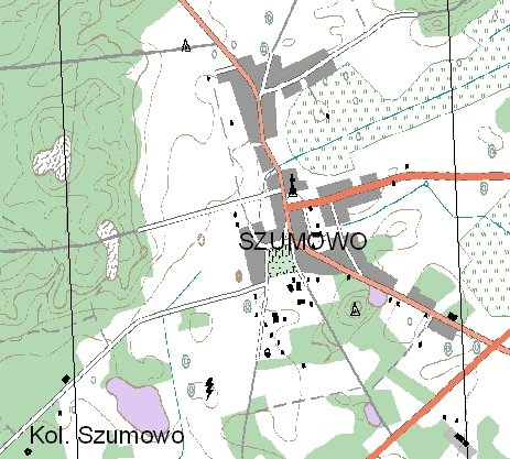 Chart of village Szumowo, Zambrowski Powiat, POLAND